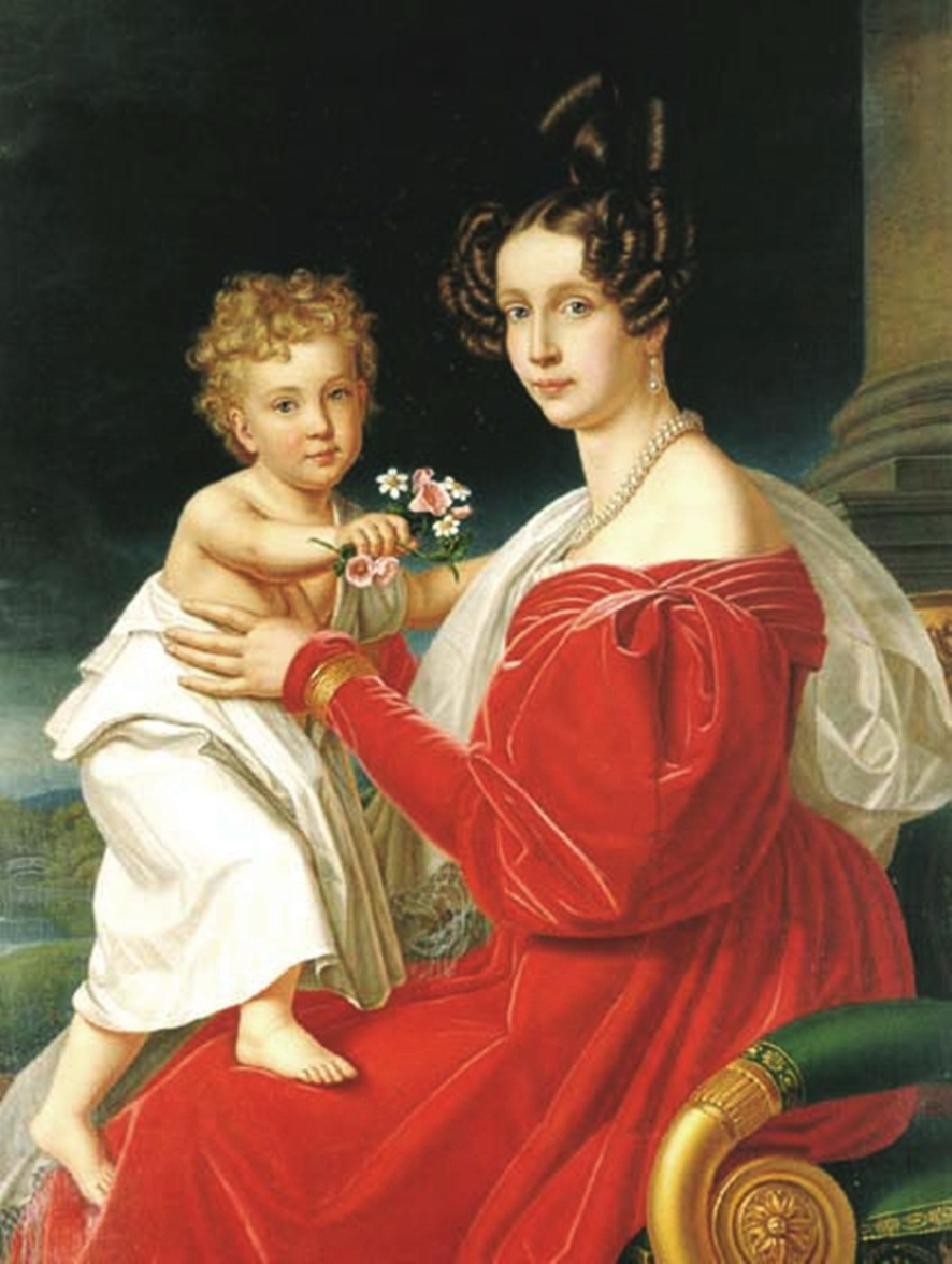 Princess Sophie of Bavaria (Sophie Fürstin von Bayern), with her child son, Franz Joseph, later Emperor of Austria.